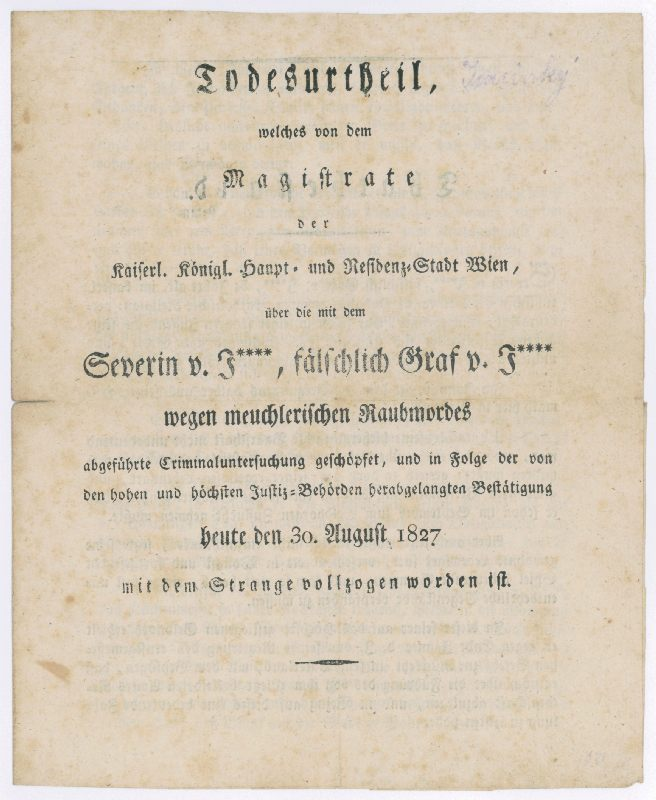 Official publication of the sentence passed on the Polish noble Severin von Jaroszinsky (1793-1827), who had lived beyond his means in Vienna and killed his former matematics teacher Johann Konrad Blank, selling his bonds.